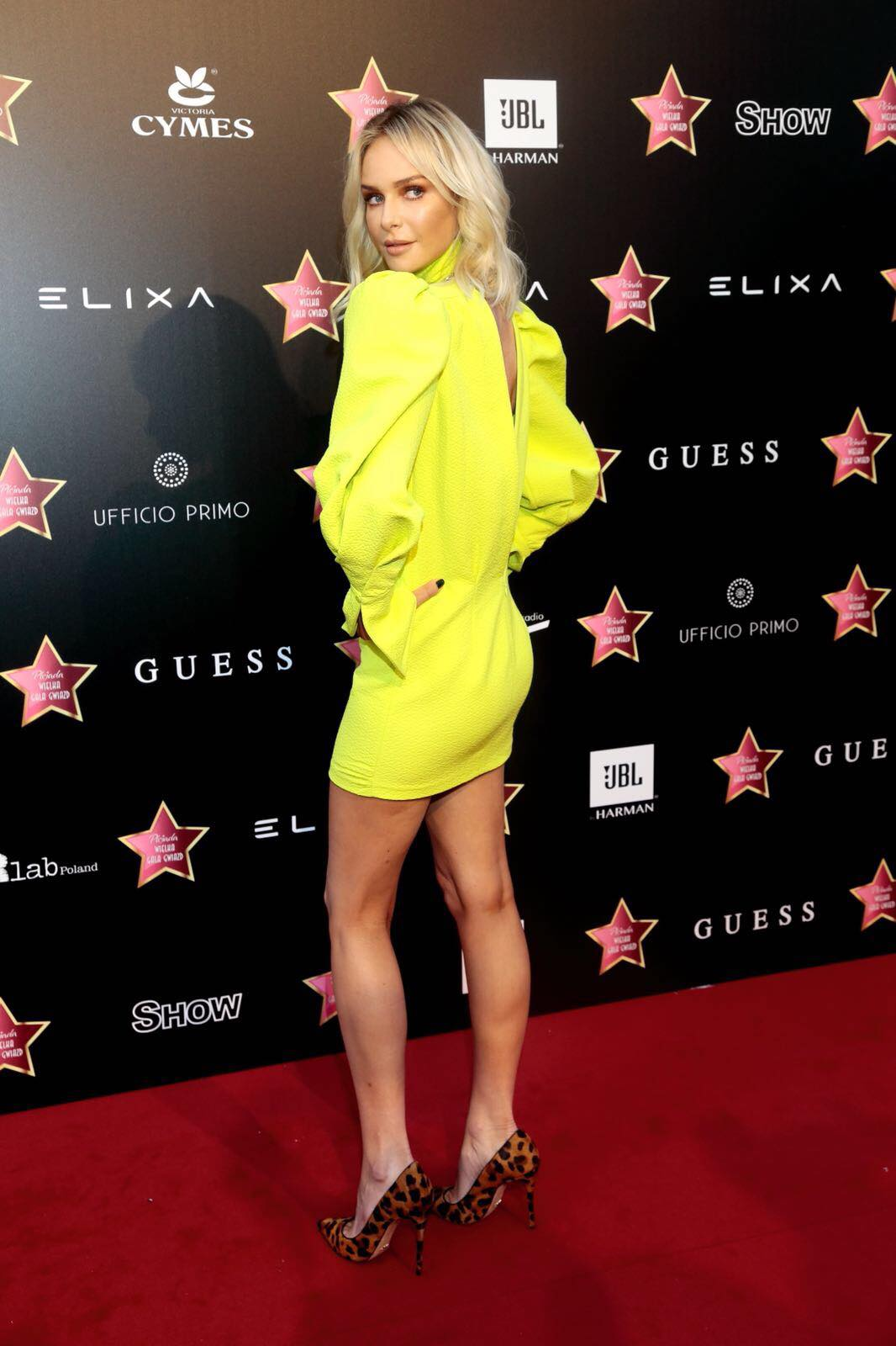 Polish model Magdalena Mielcarz